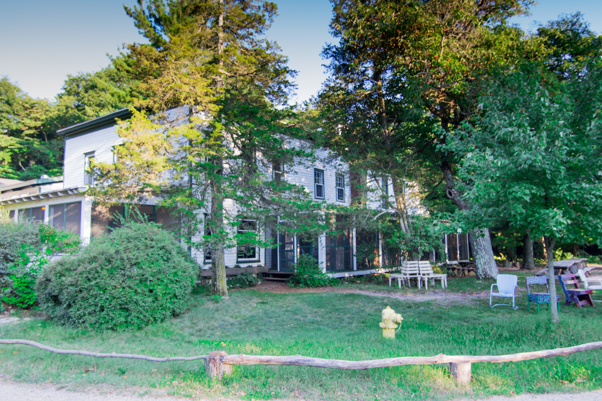 Ox Bow School of Art